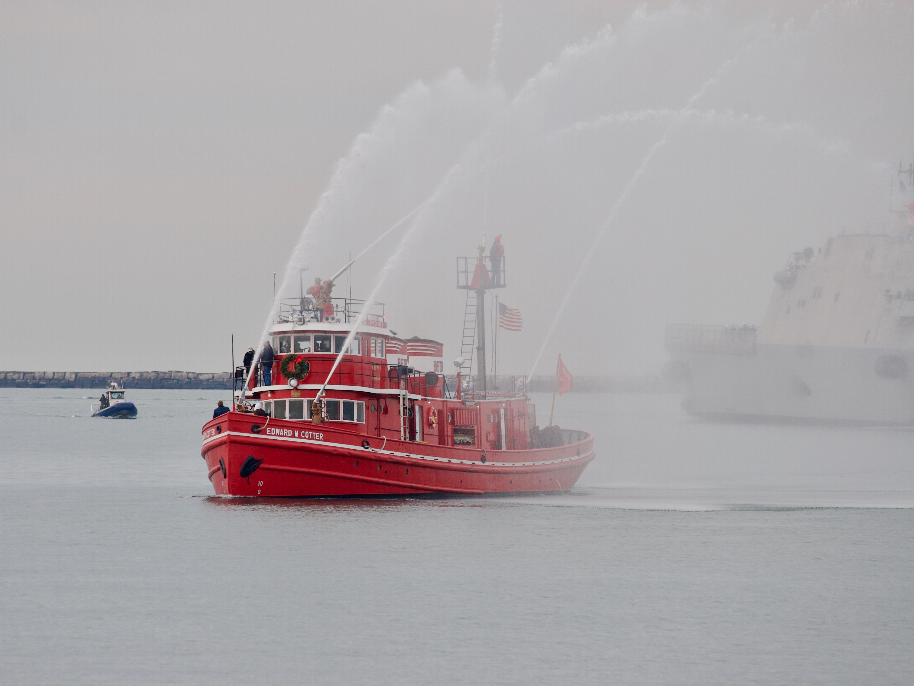 Edward M Cotter escorting USS Little Rock into Buffalo Inner Harbor